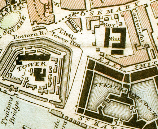 Section of "Improved map of London for 1833, from Actual Survey. Engraved by W. Schmollinger, 27 Goswell Terrace" showing the location of the Royal Mint.